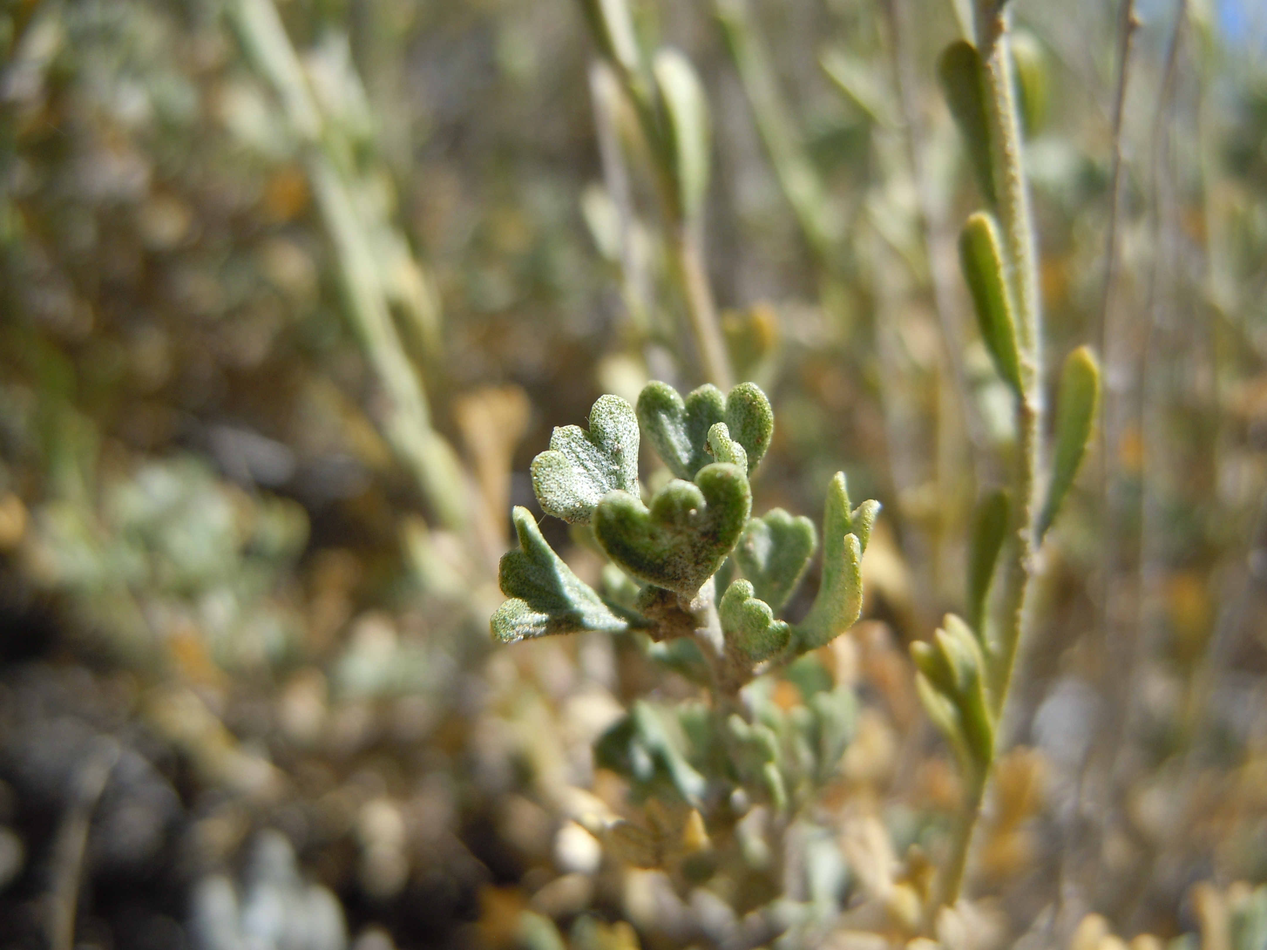 The relative lack of hairs renders the punctate glands more conspicuous. Artemisia nova tends to have all simple leaves along the inflorescence branches including along the base of the branch.